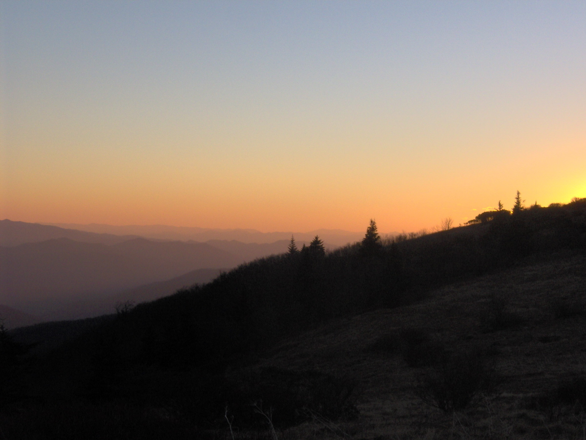 Sunset over the Blue Ridge Mountains, looking south from Grassy Ridge (between Jane Bald and Round Bald).